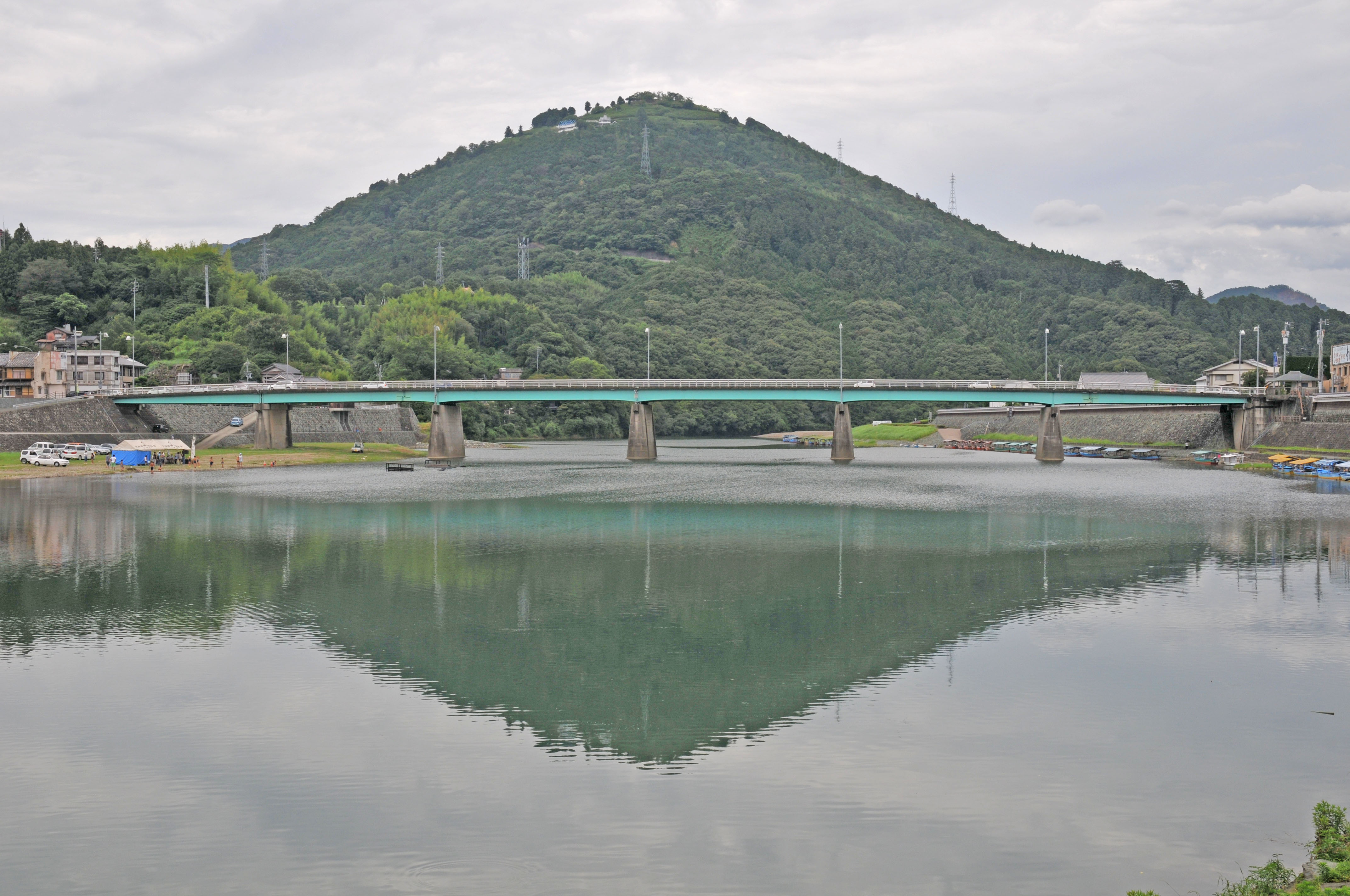 Tomisu-yama and Hiji-kawa